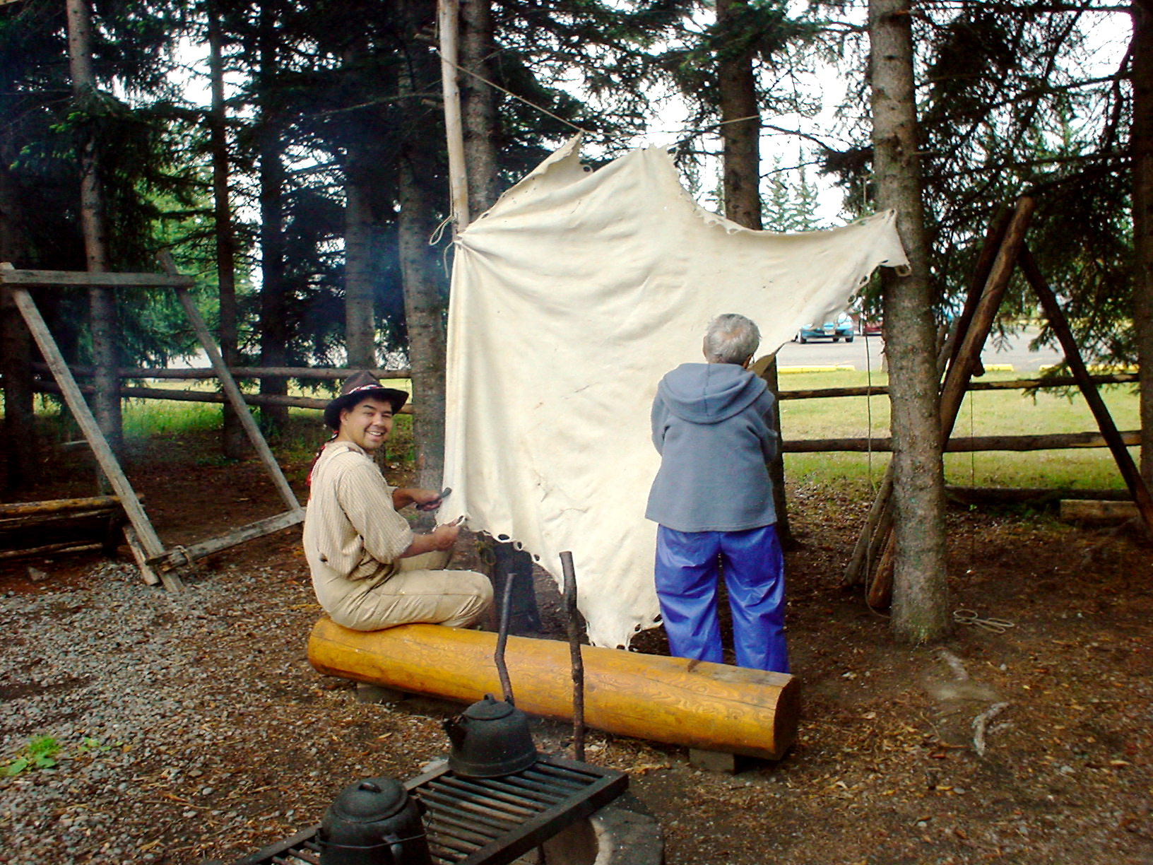 Tanning a moose hide at Fort St. James in British Columbia